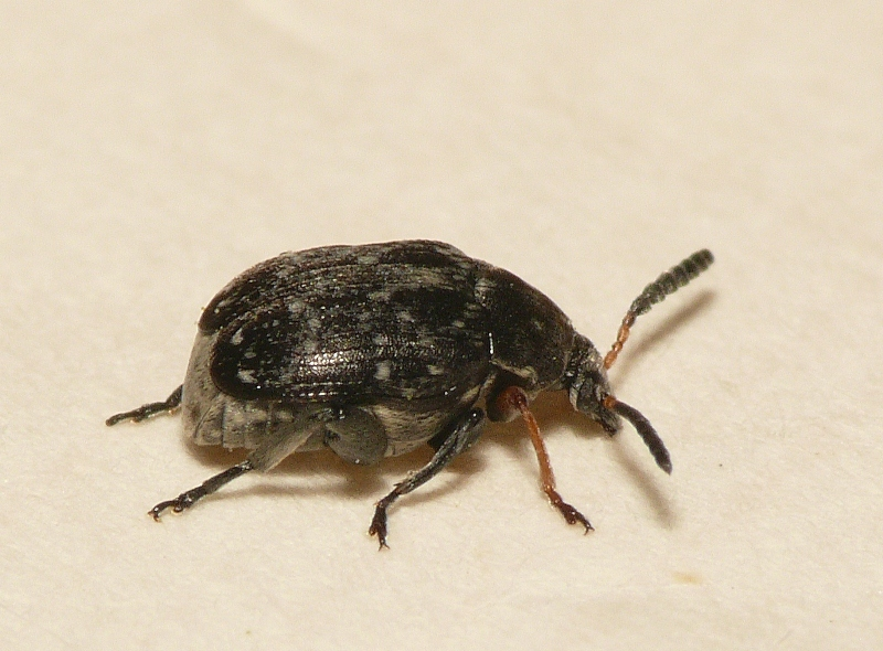 Bruchus atomarius. Location: The Netherlands - Rhenen - Blauwe Kamer